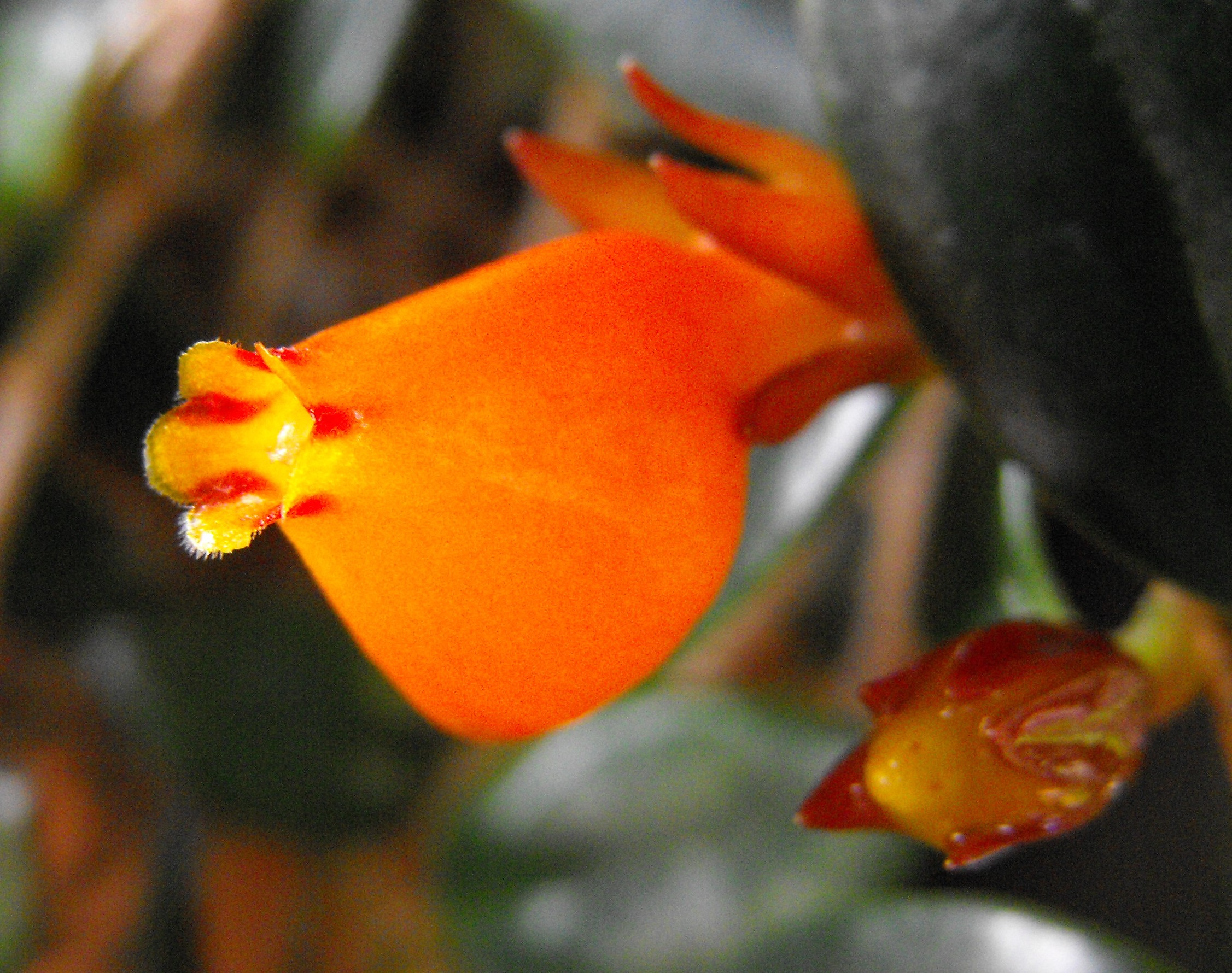 Nematanthus wettsteinii in the Botanical Building at Balboa Park in San Diego, California, USA.